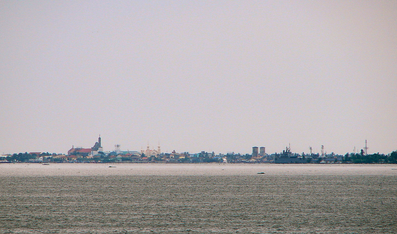 Cavite City, as seen across the Manila Bay, the Philippines